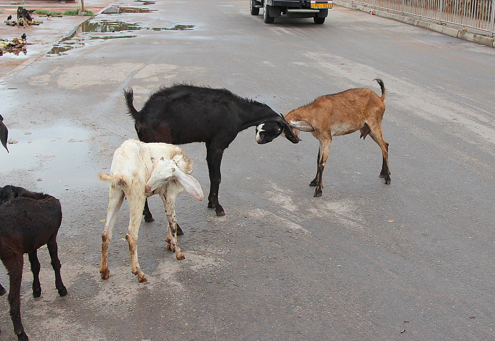 Fight between goats